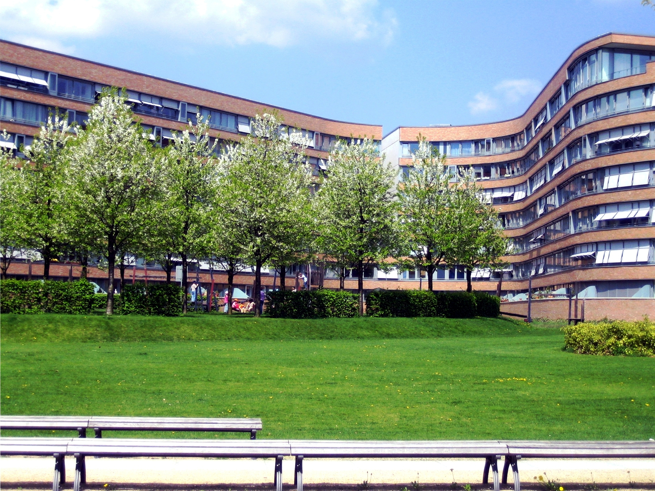 Berlin, Moabiter Werder. View from bank promenade to north.